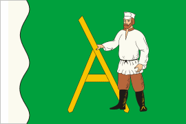 Alekseevskoe (Krasnodar krai), flag